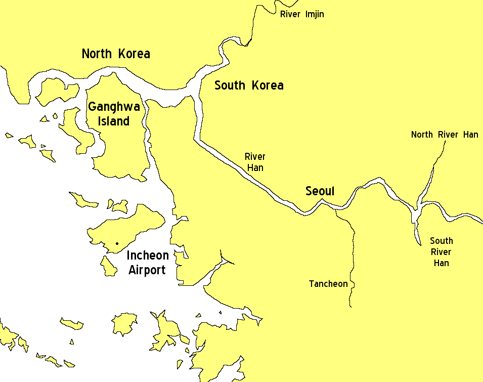 Location of the Tancheon (Stream)